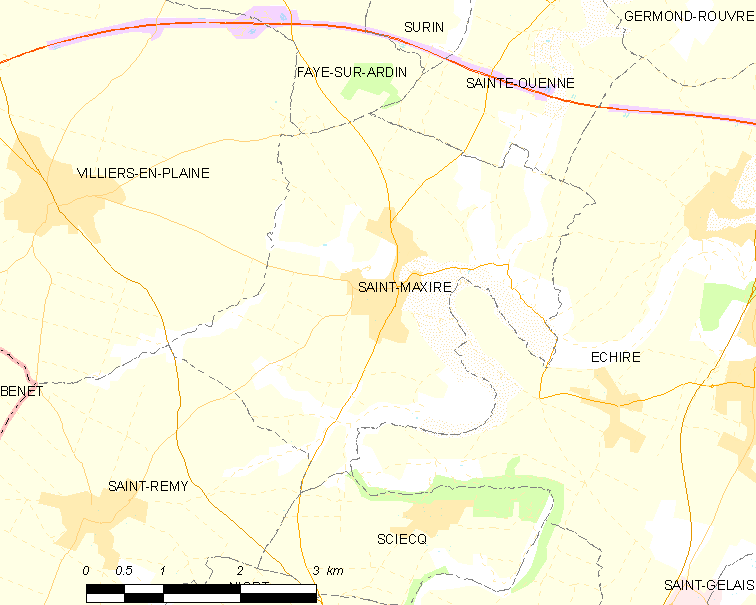 Map of French municipality Saint-Maxire